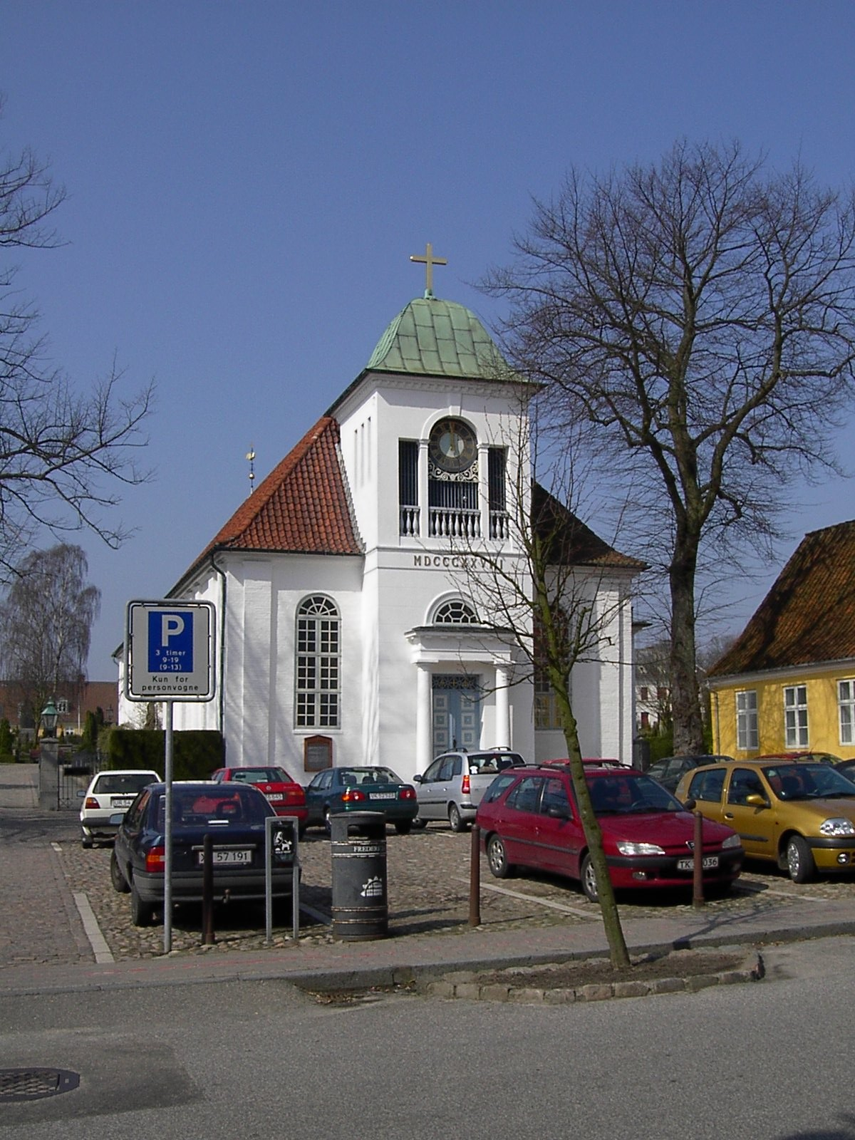 Saint Michaelis Church in the city Fredericia in Denmark. It has a low tower because that would make it an easy target to shoot at from outside the city.